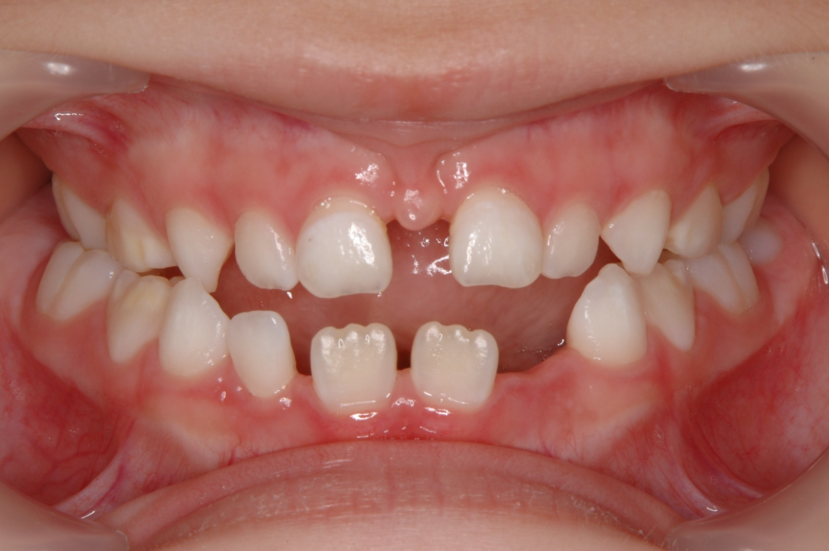 teeth photo